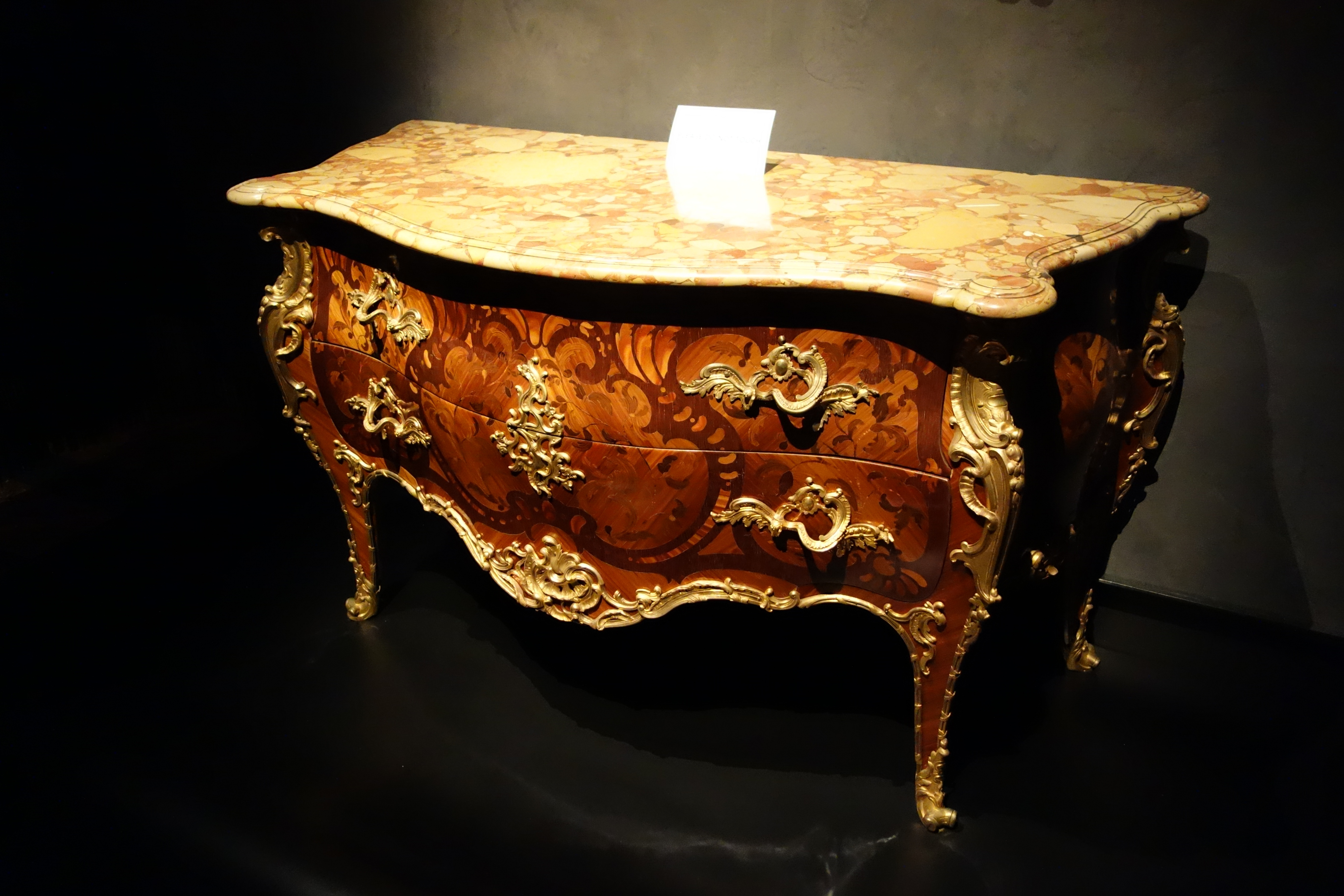 Exhibit in the Cincinnati Art Museum, Cincinnati, Ohio, USA. This artwork is in the public domain because the artist died more than 70 years ago.